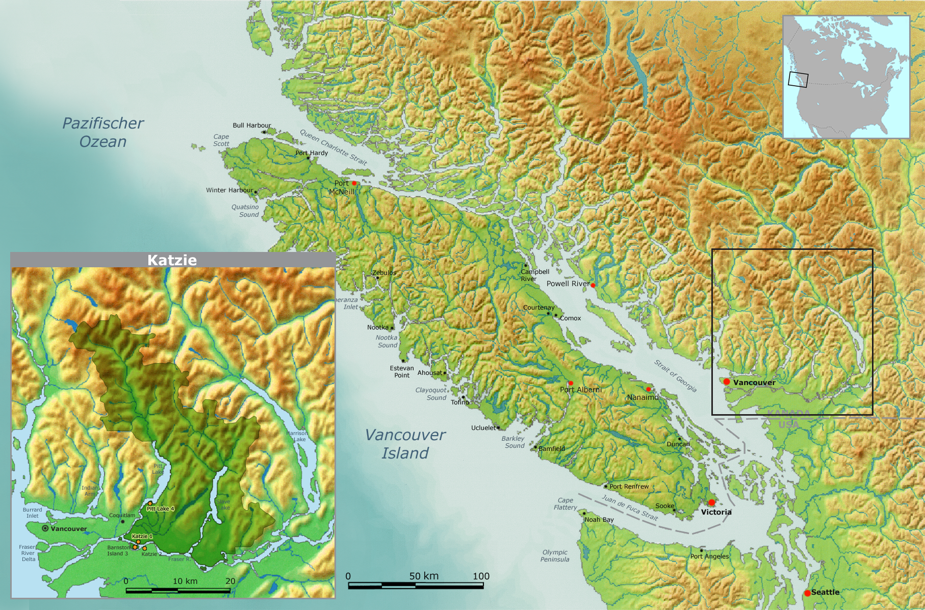 Map of traditional Katzie tribal territory.